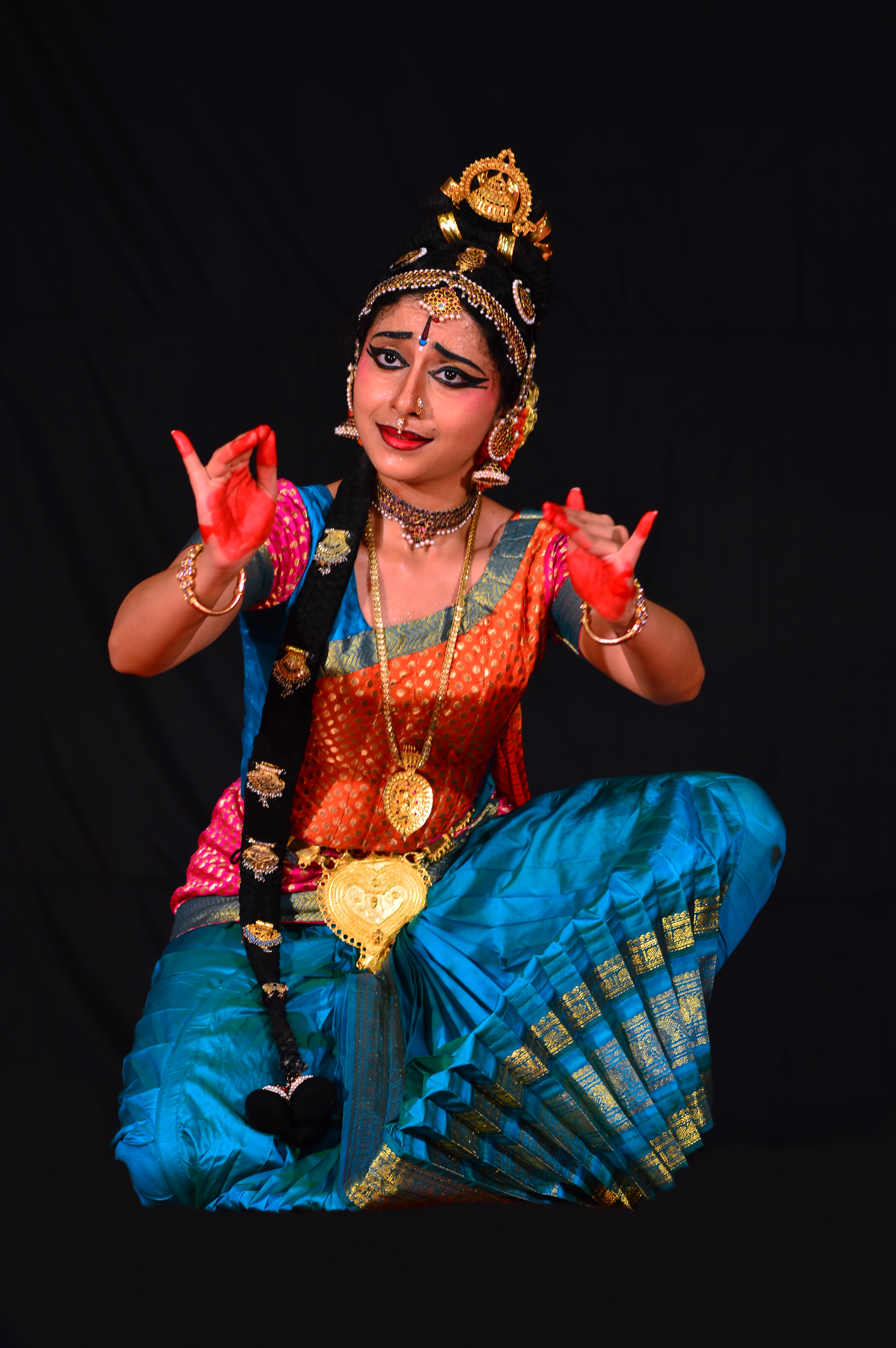 Prathiksha Kashi